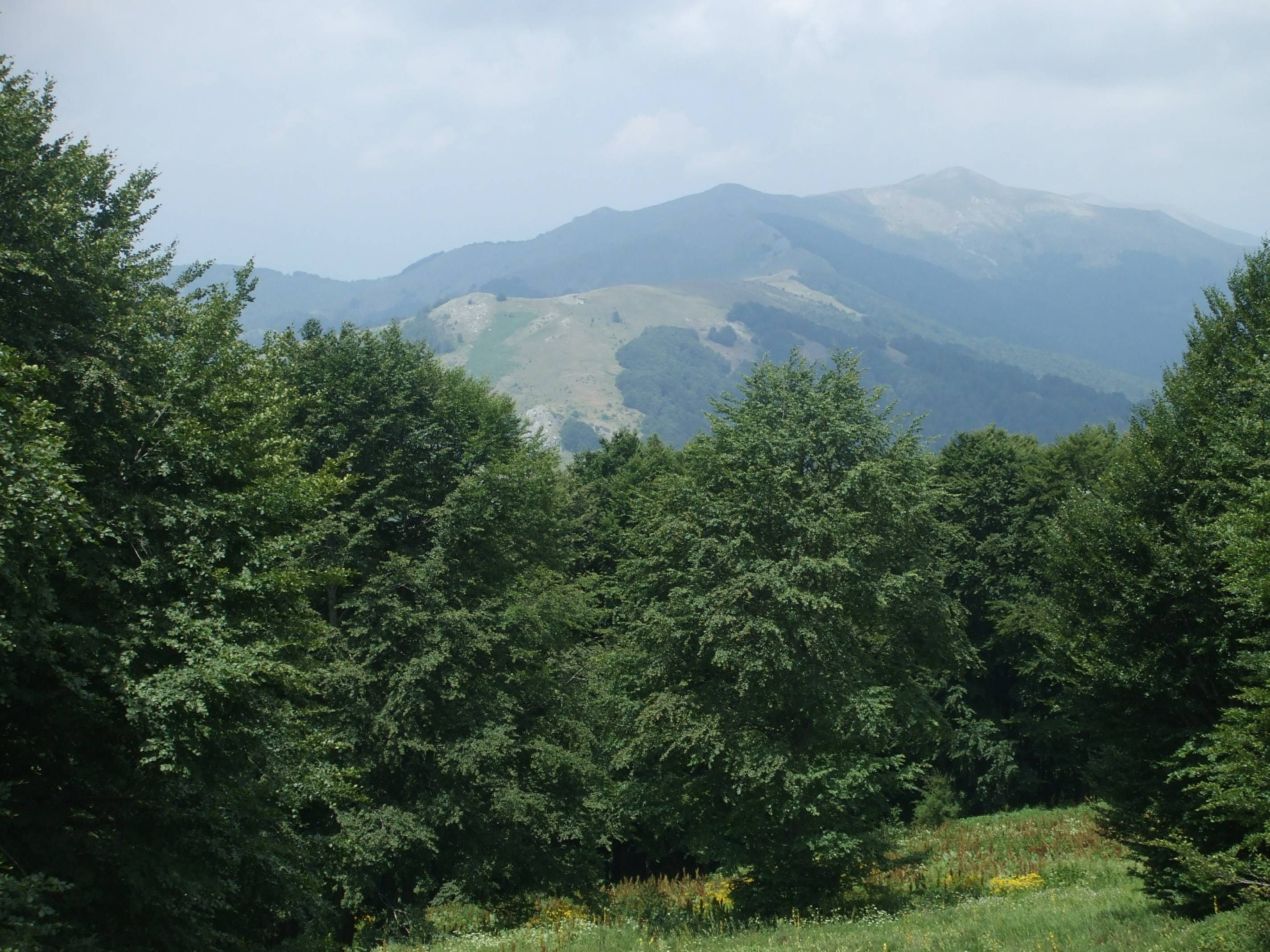 Ilinska_planina